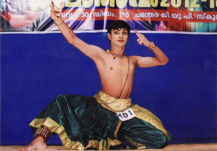 kuchipudi